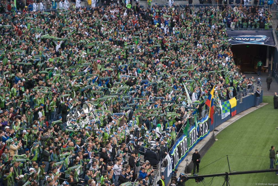 Supporters of the Seattle Sounders hold aloft their scarves during a March 2009 game at the Qwest Field